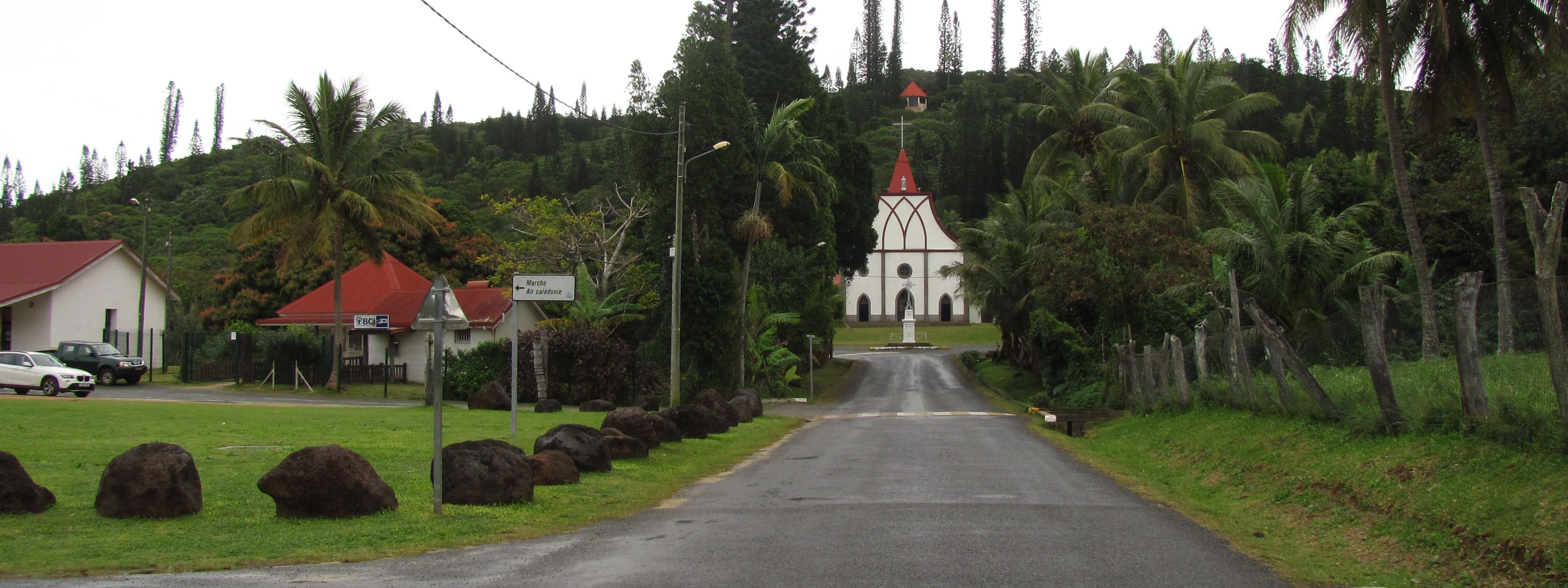 Church and village centre, Vao, L'Île-des-Pins, New Caledonia